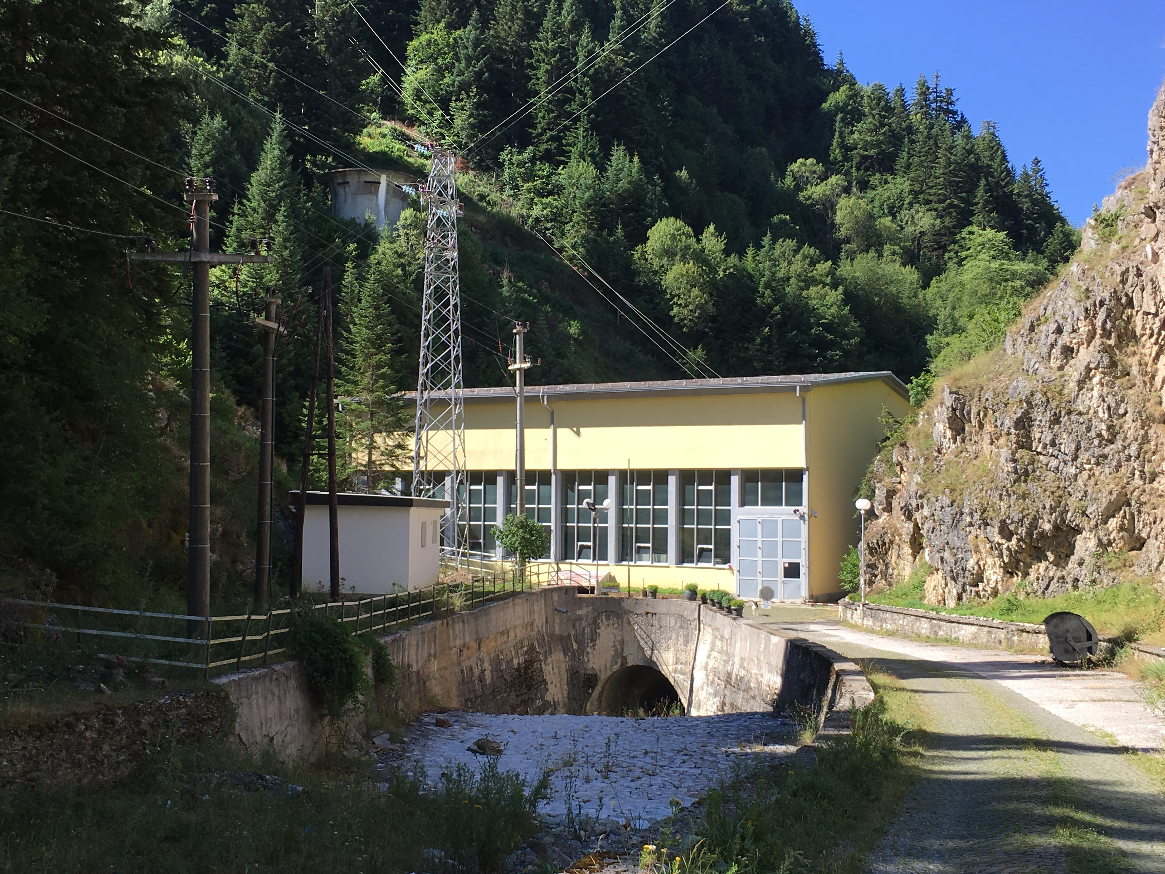 Hydroelectric Power Plant Vrben